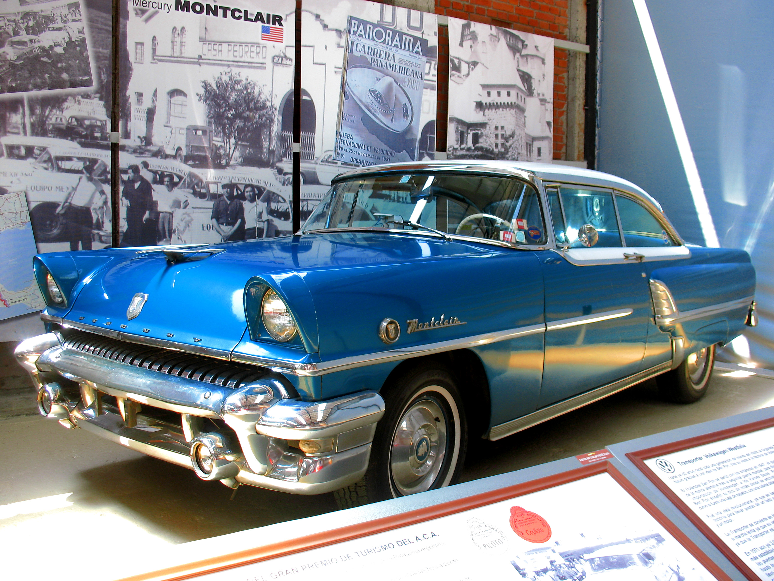 Mercury Montclair 1956